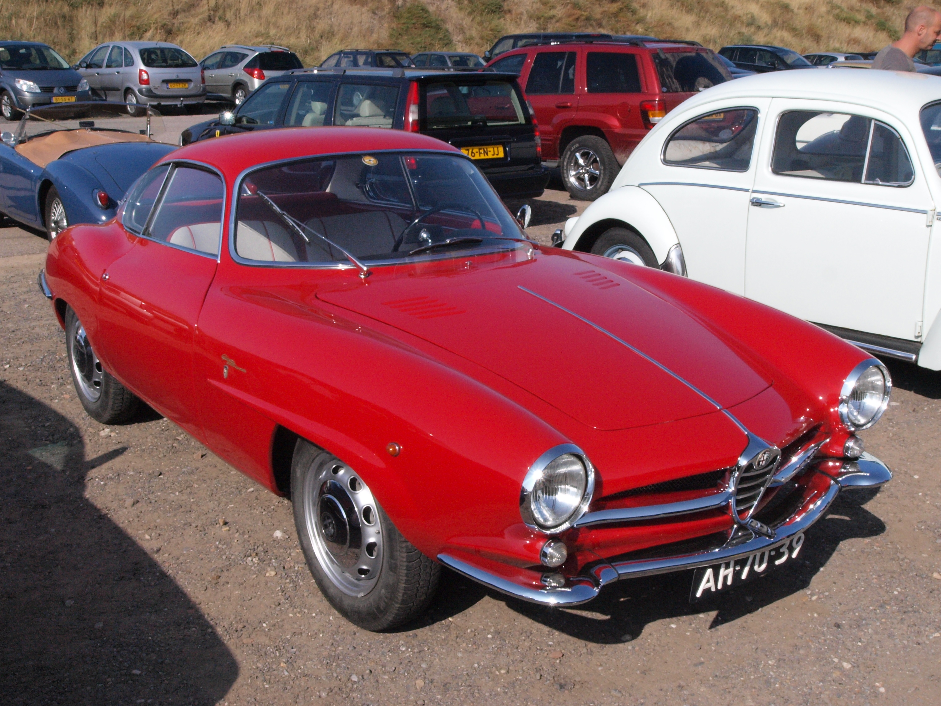 Photographed at the Nationaal Oldtimer Festival Zandvoort 2009, The Netherlands. OLYMPUS DIGITAL CAMERA